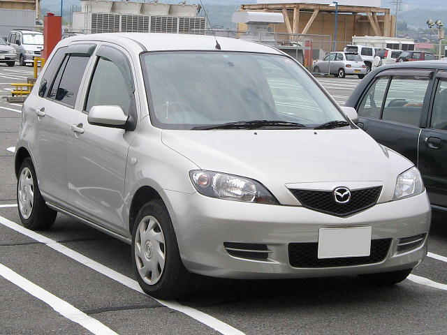 Mazda "Demio" (2nd generation) 2003/11-2005/4